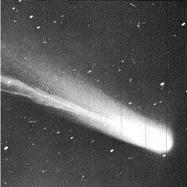 Comet Mrkos 1957, 8 minute exposure on Kodak 103a-O plate, covering A 3500-5000, on 27.84 August, 1957.